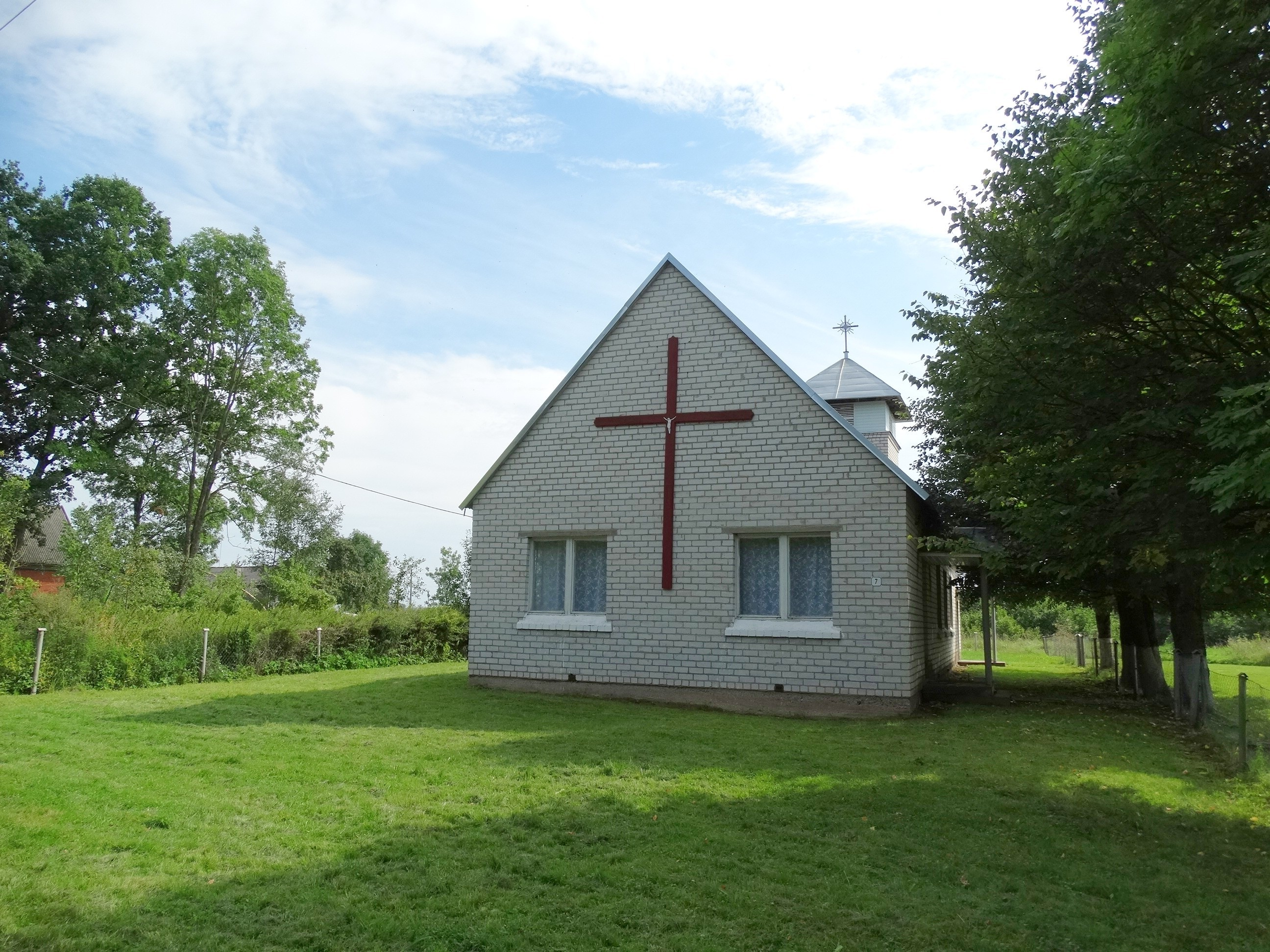 Chapel, Griaužai, Jurbarkas district Lithuania